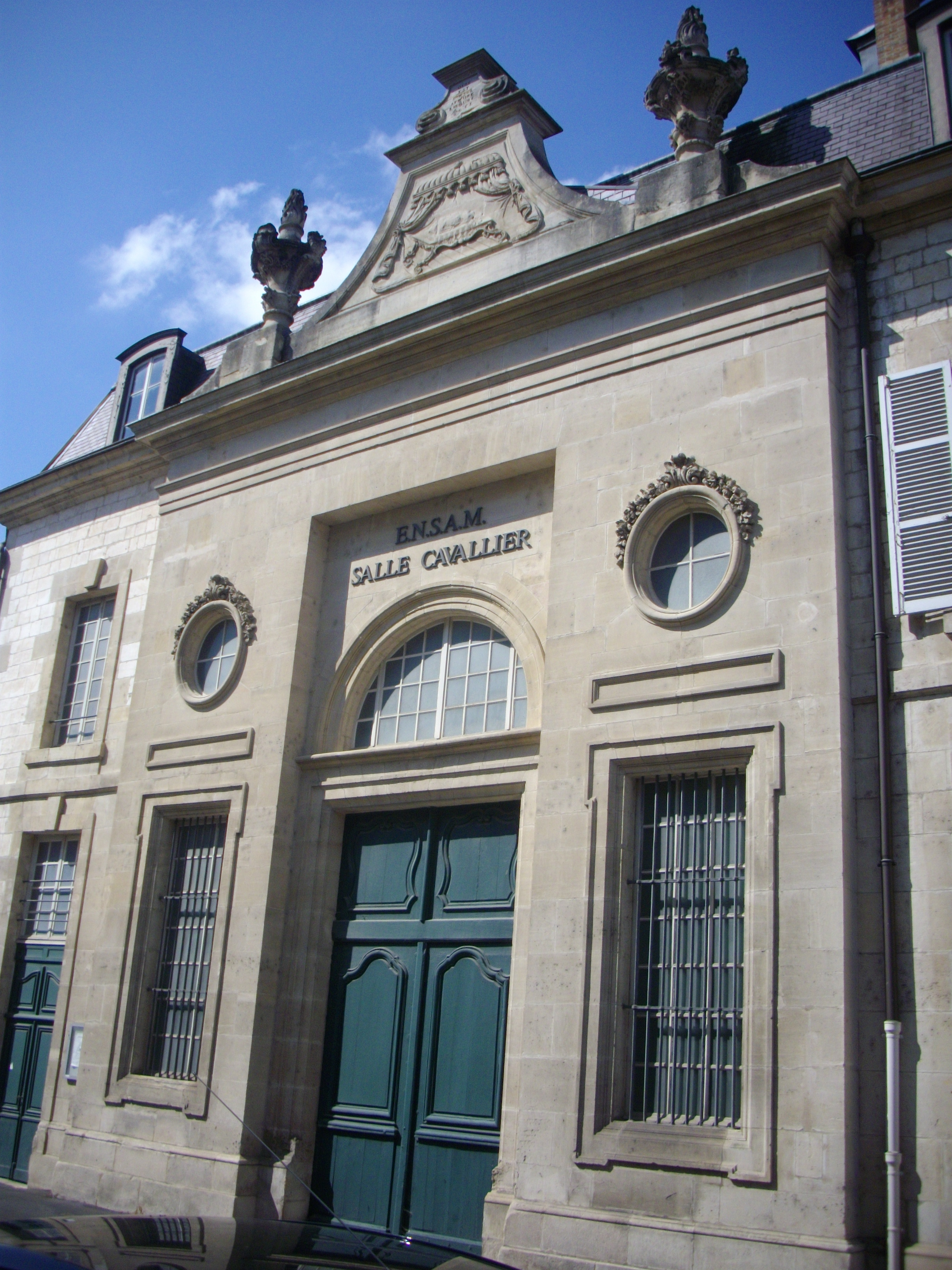 Superior national school of arts and crafts in Châlons-en-Champagne (Marne, France) This building is indexed in the Base Mérimée, a database of architectural heritage maintained by the French Ministry of Culture, under the references PA00078616 and technique école technique .